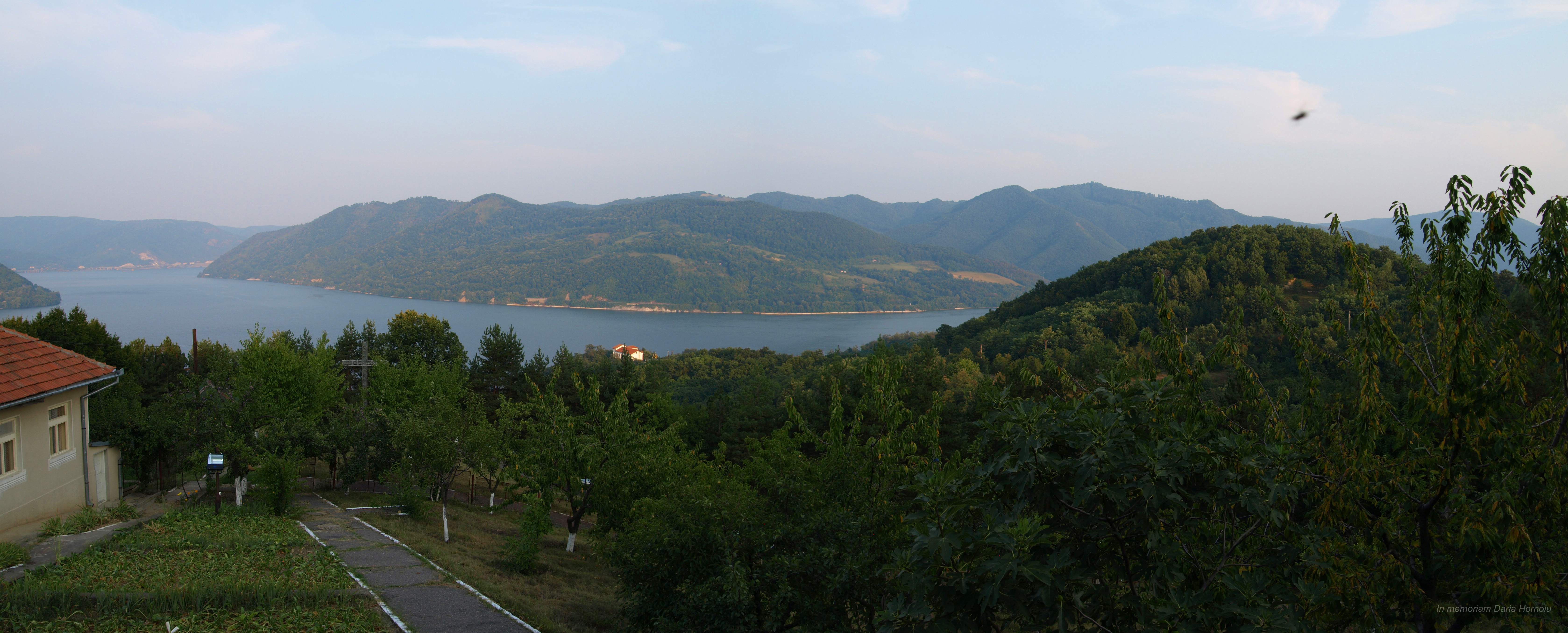 The river Danube as seen from the Saint Anne Monastery in Orșova, Romania